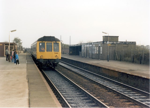 Irlam railway station Original description: Irlam station The train is working "wrong line" during a period of Single Line Working from Glazebrook to Urmston while new signalling was installed.